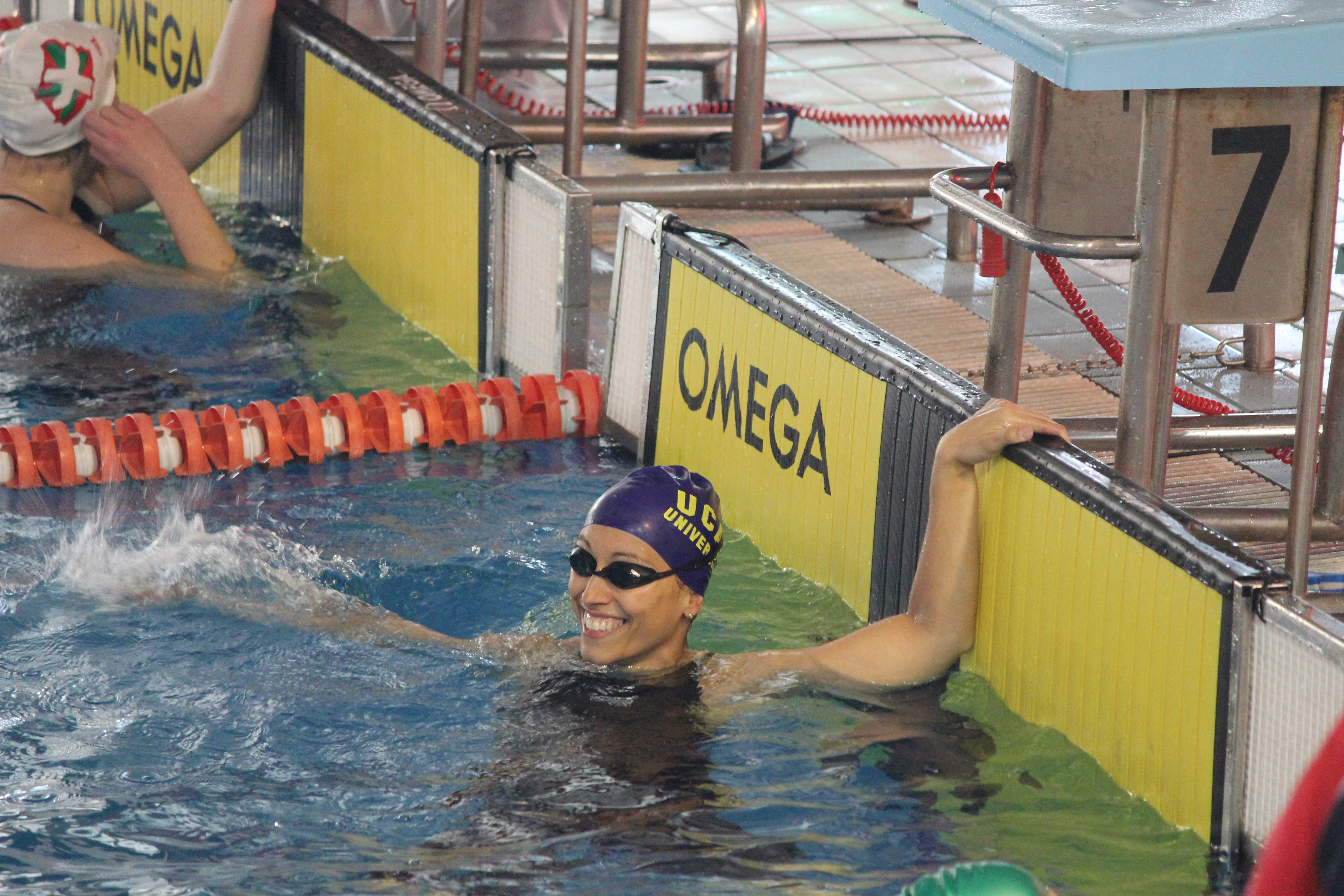 Campeonato de España de Natación Paralímpica por Selecciones Autonómicas 2015